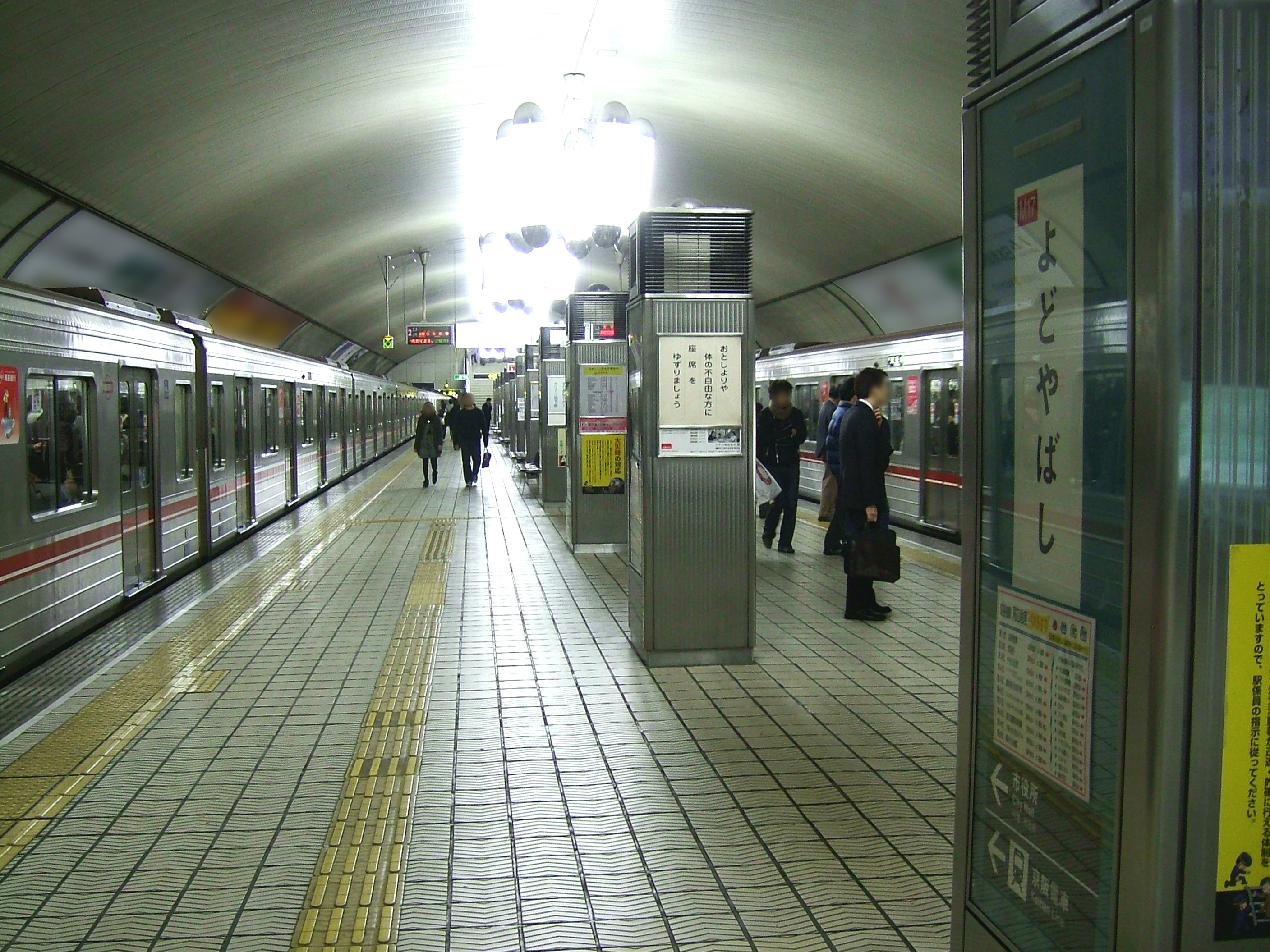 The platform at Yodoyabashi Station on the Midōsuji Line